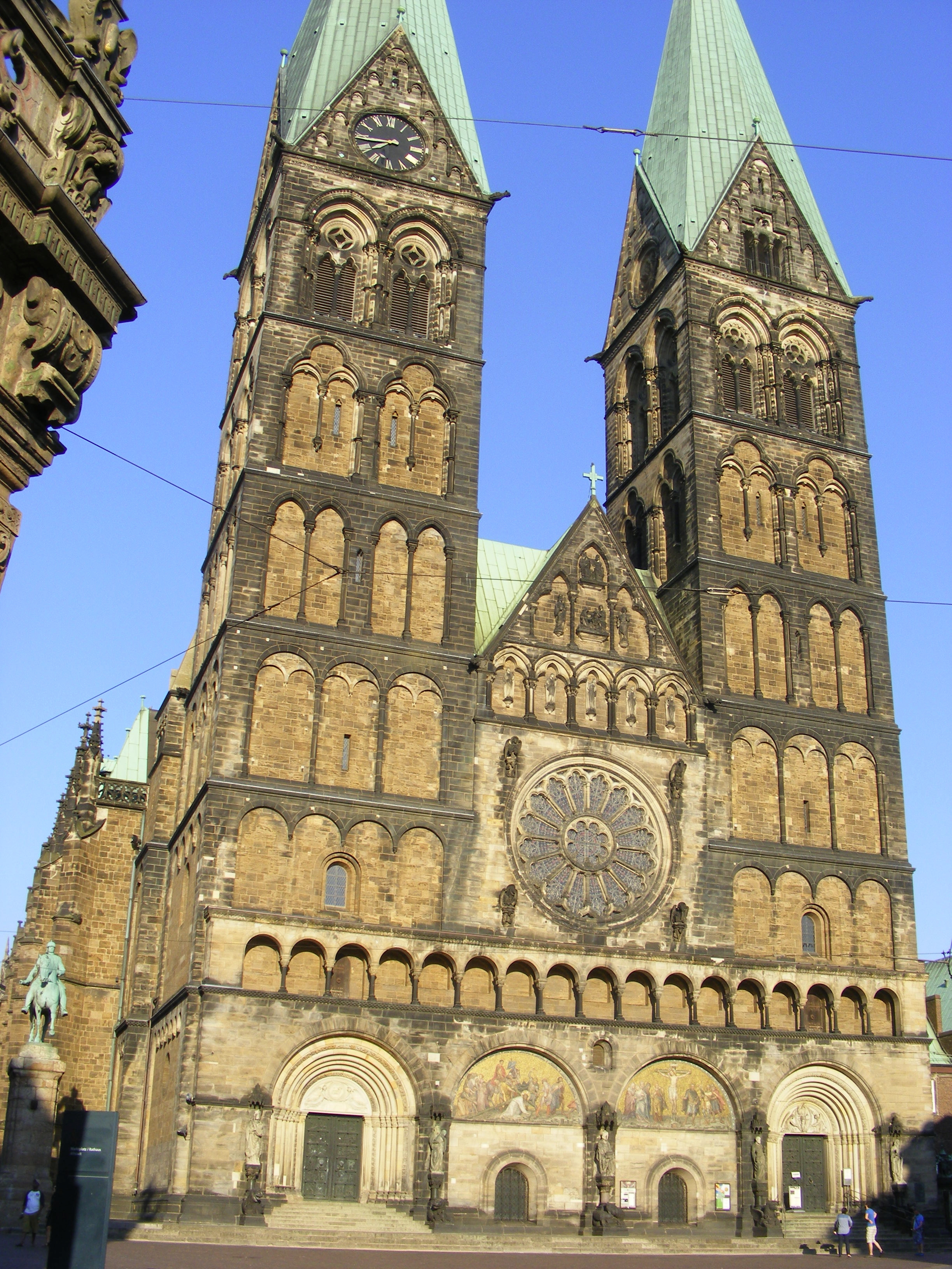 Towers of Bremen Cathedral at 19:44h CEST